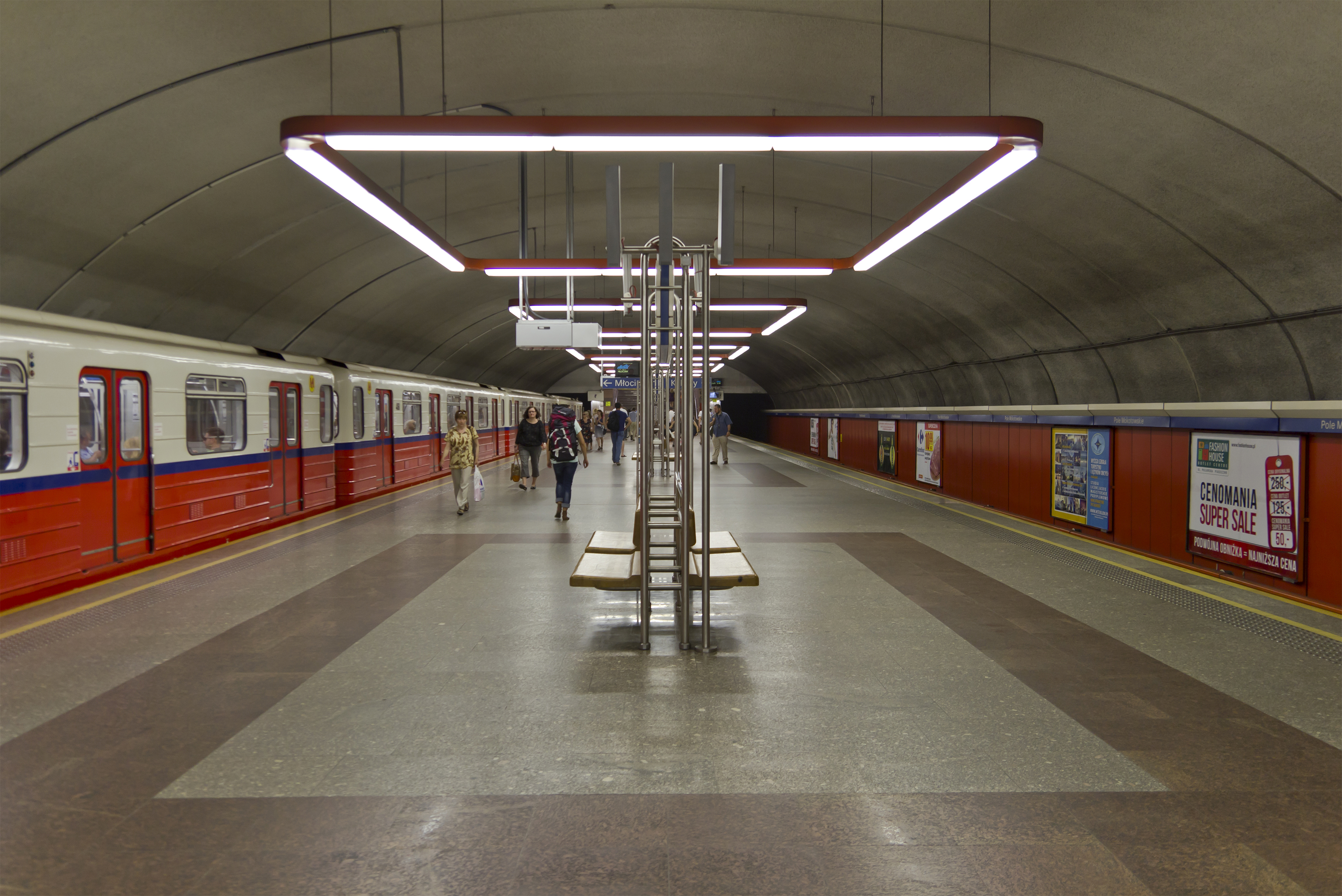 Metro station «Pole Mokotowskie» in Warsaw (Poland)